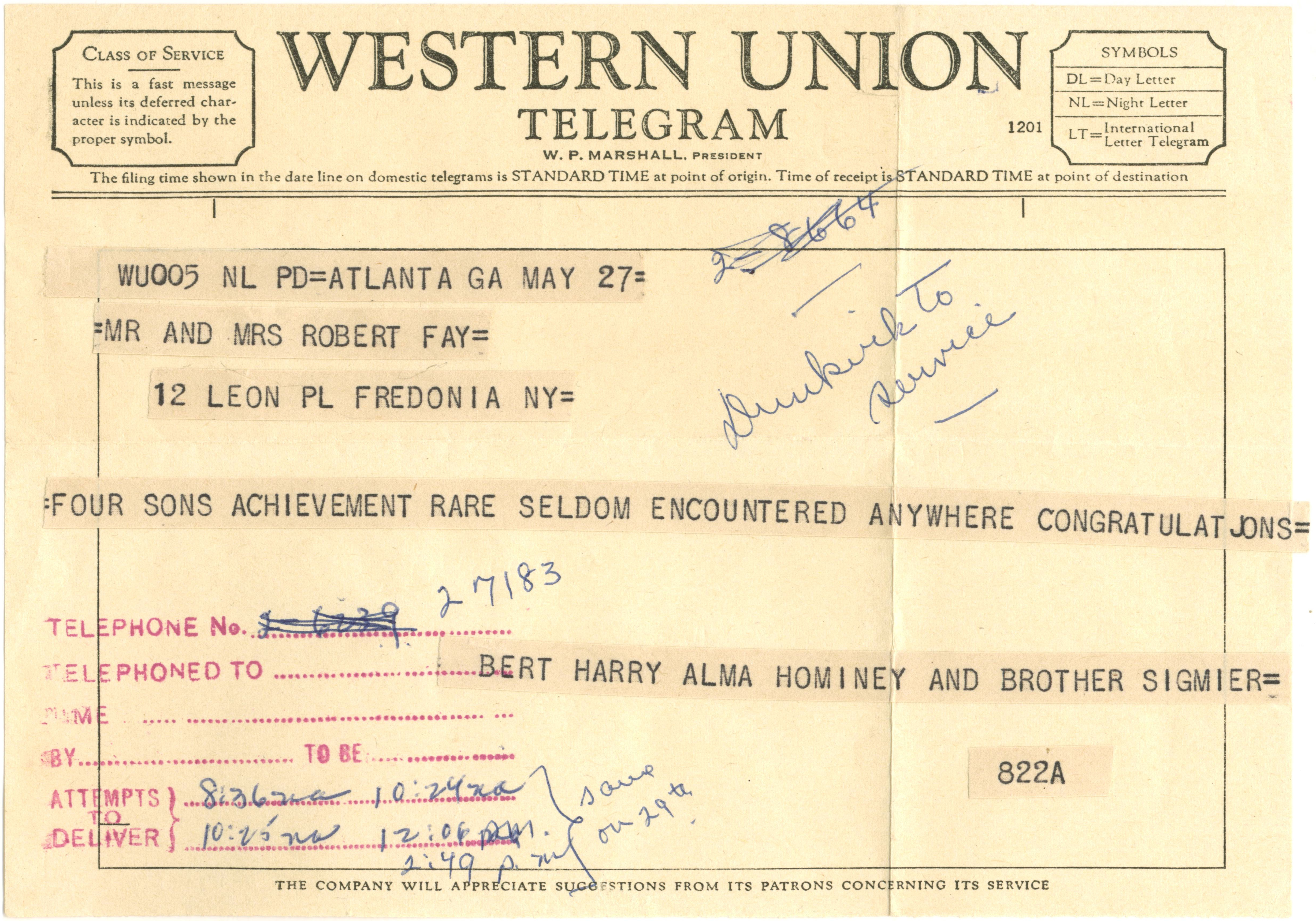 Example of a Western Union Telegram (USA), 27 May 1959. Sent from Atlanta GA to Fredonia NY in congratulations of birth of fourth son (RM Fay). Note how the message text is a continuous strip of paper with line breaks denoted by equal signs, which was cut and glued to a form. Also note the courier's attempts to deliver the message, a typo, and the five-digit phone numbers. Telegram form is 8 x 5 & 11/16 inches (20.3 x 14.4 cm).